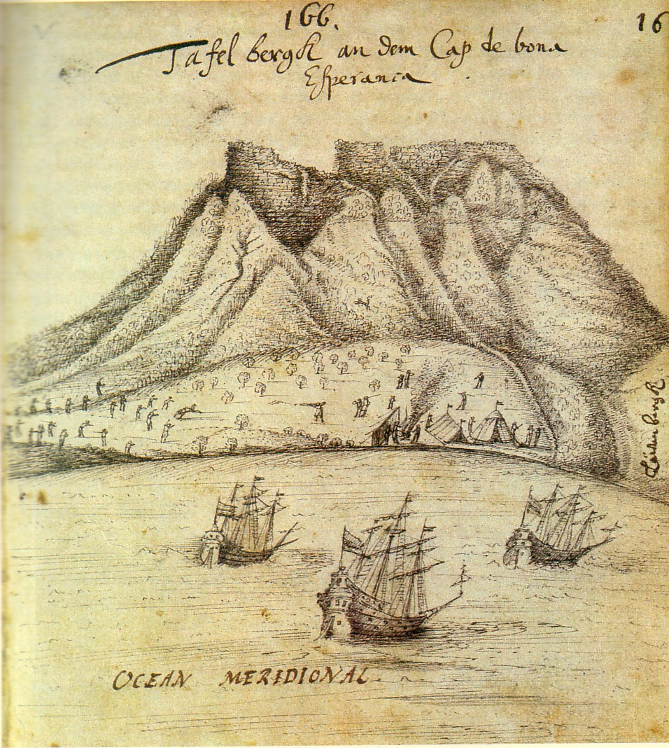 colored drawing by Caspar Schmalkalden (c.1618-c.1668)